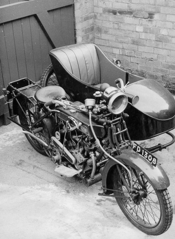 Clyno Combination Motorcycle and side car, circa 1920